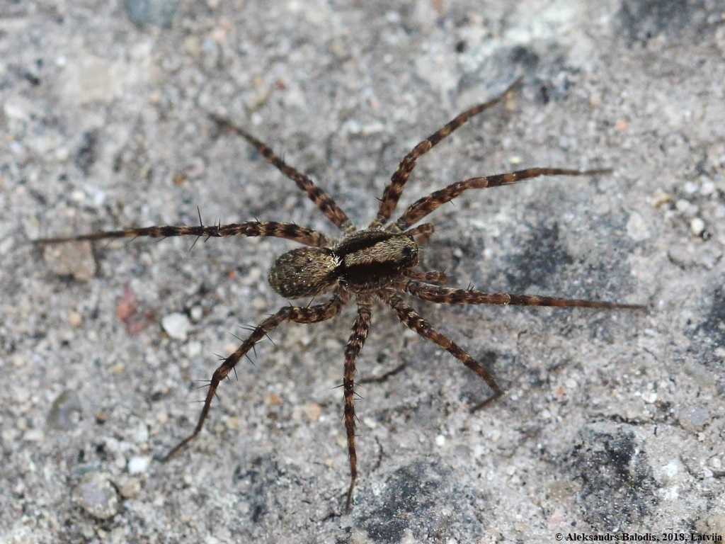 Xerolycosa nemoralis